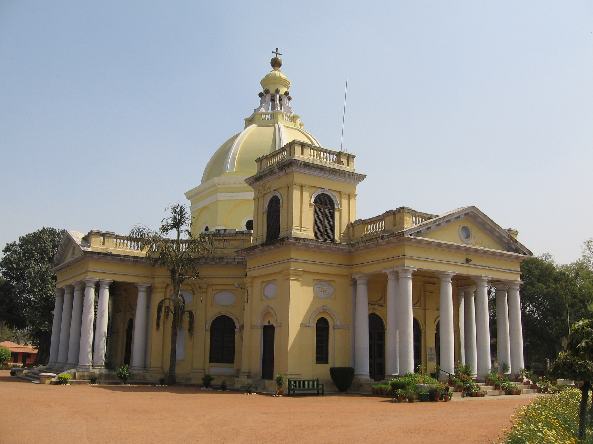 The church of Saint-James in Delhi (Kashmiri Gate) built by James Skinner, and inaugurated in 1836.